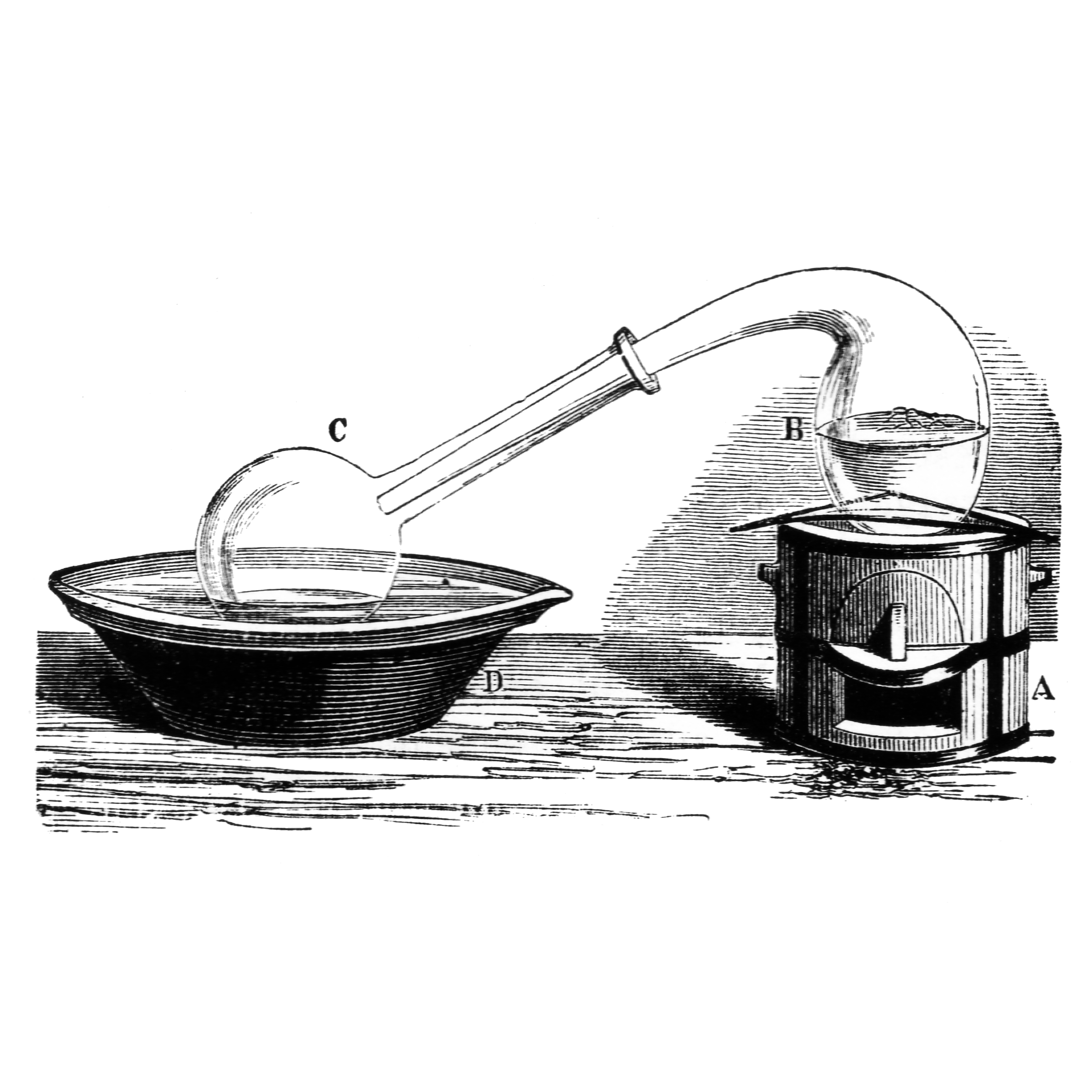 "Opfindelsernes Bog V" (Book of inventions V) 1880 by André Lütken, Ill. 3.